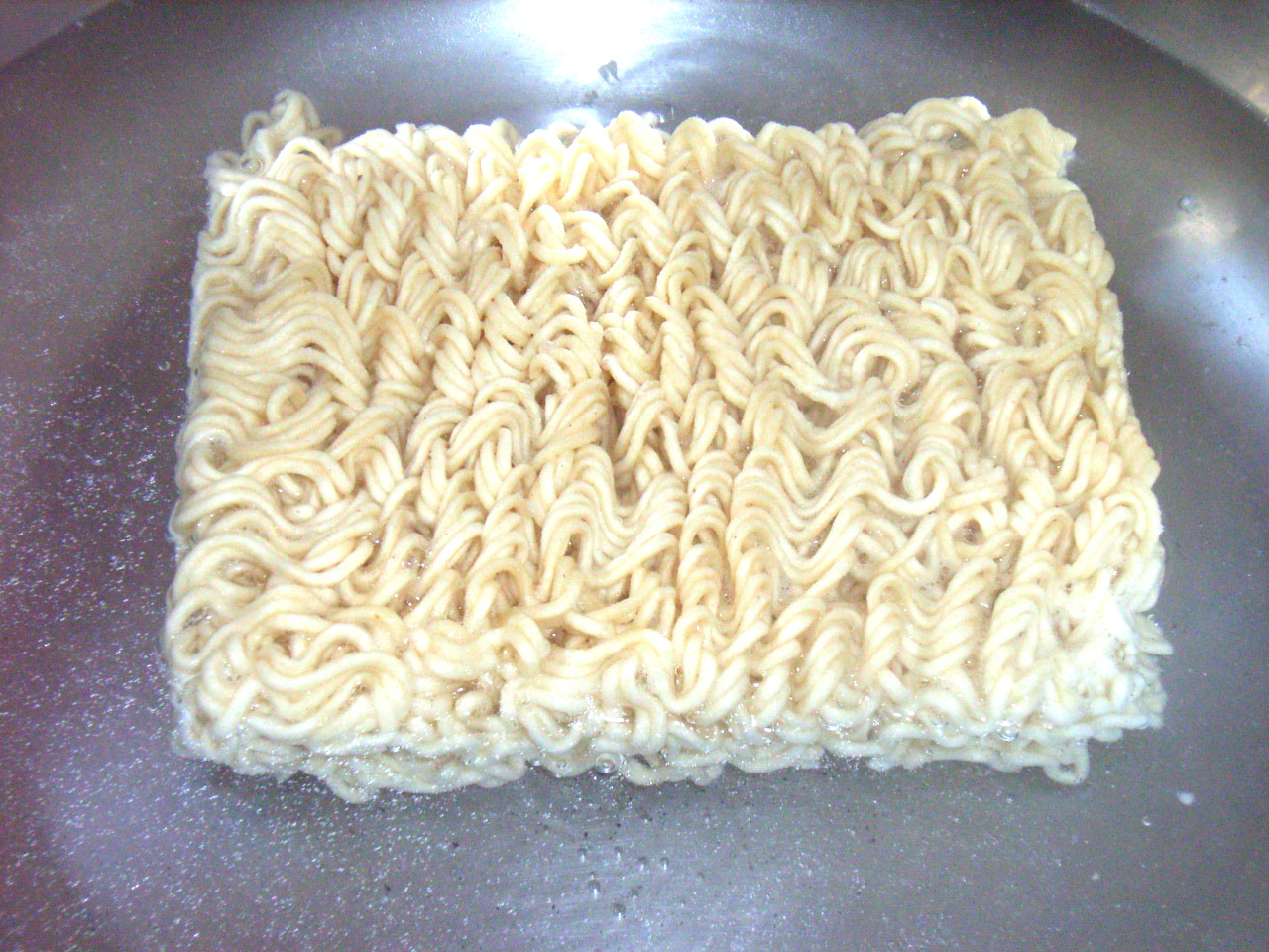 Four Seas Seaweed Hot & Spicy Instant Noodle - 四洲集團速食麵、紫菜